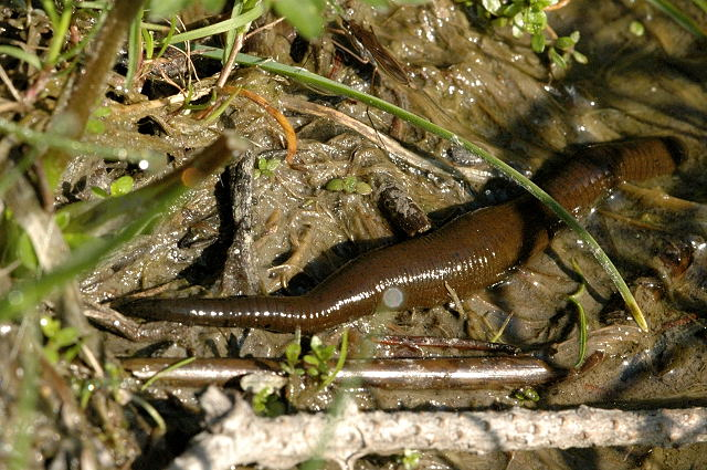 Picture taken in Commanster, Belgian High Ardennes . Species: Haemopis sanguisuga